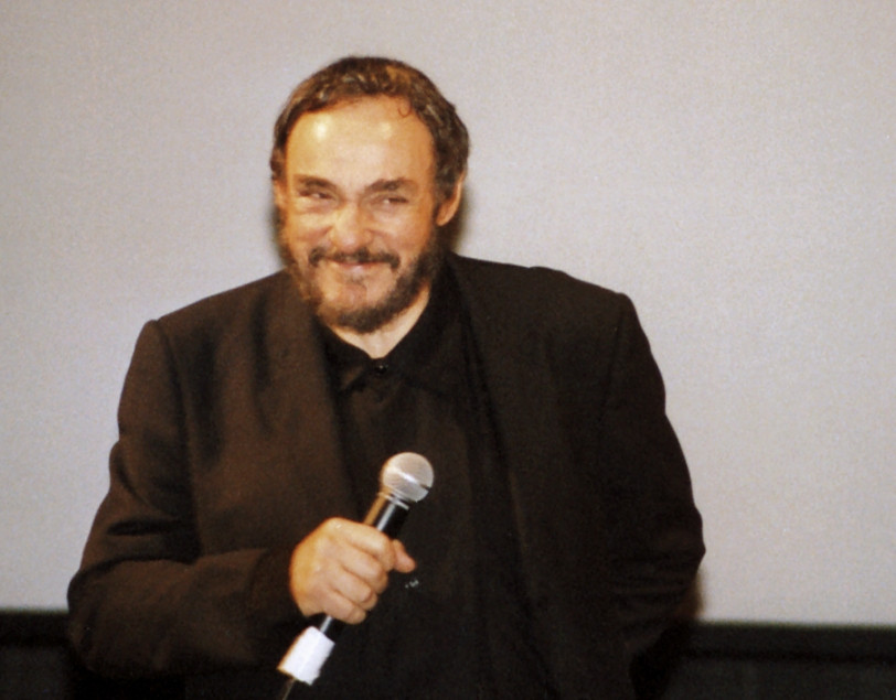 British actor John Rhys-Davies at the Lord of the Rings-Convention Ring*Con 2003 in Bonn, Germany.